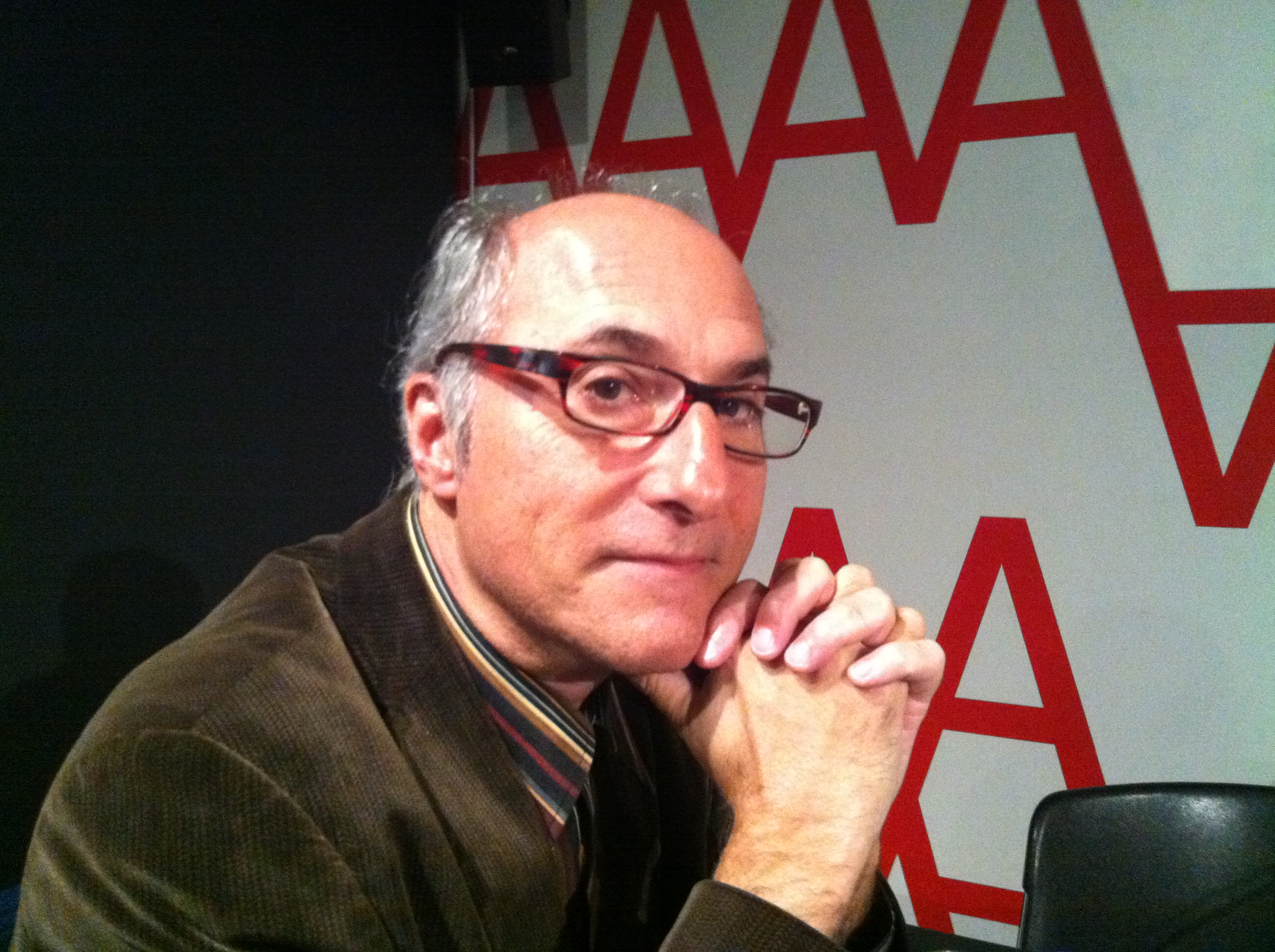 Vicenç Altaió i Morral, director of Arts Santa Mònica